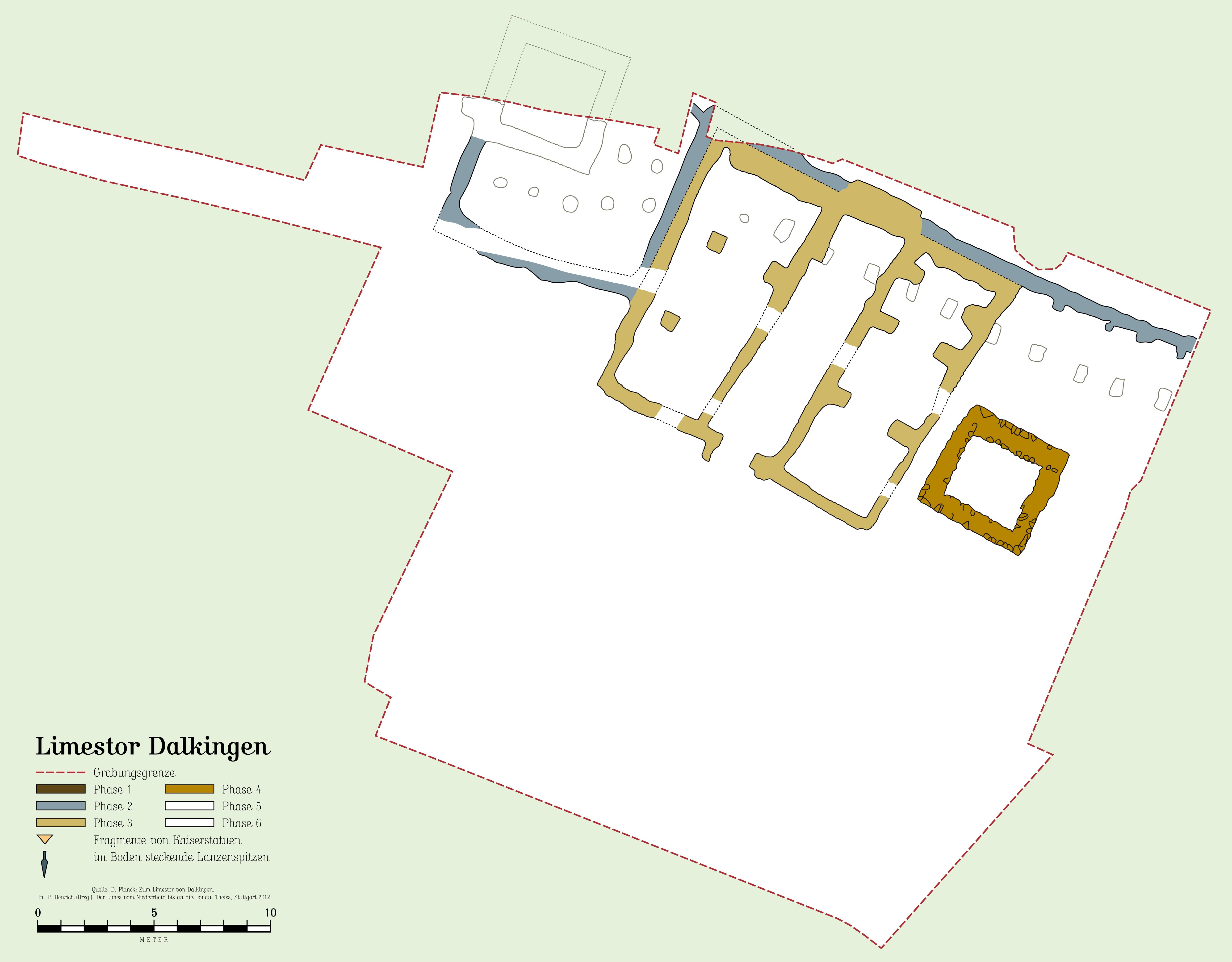 The Roman Limes gate of Dalkingen, Germany; 4st construction phase (of altogether six) after D. Planck. Created on Macintosh; saved in Wikipedia with Adobe Photoshop CS 3